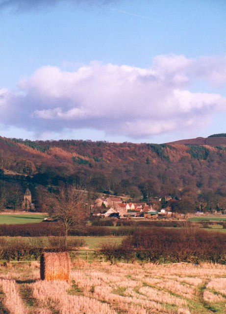 Looking cross the fields to Cowesby with the Hambleton Hills beyond